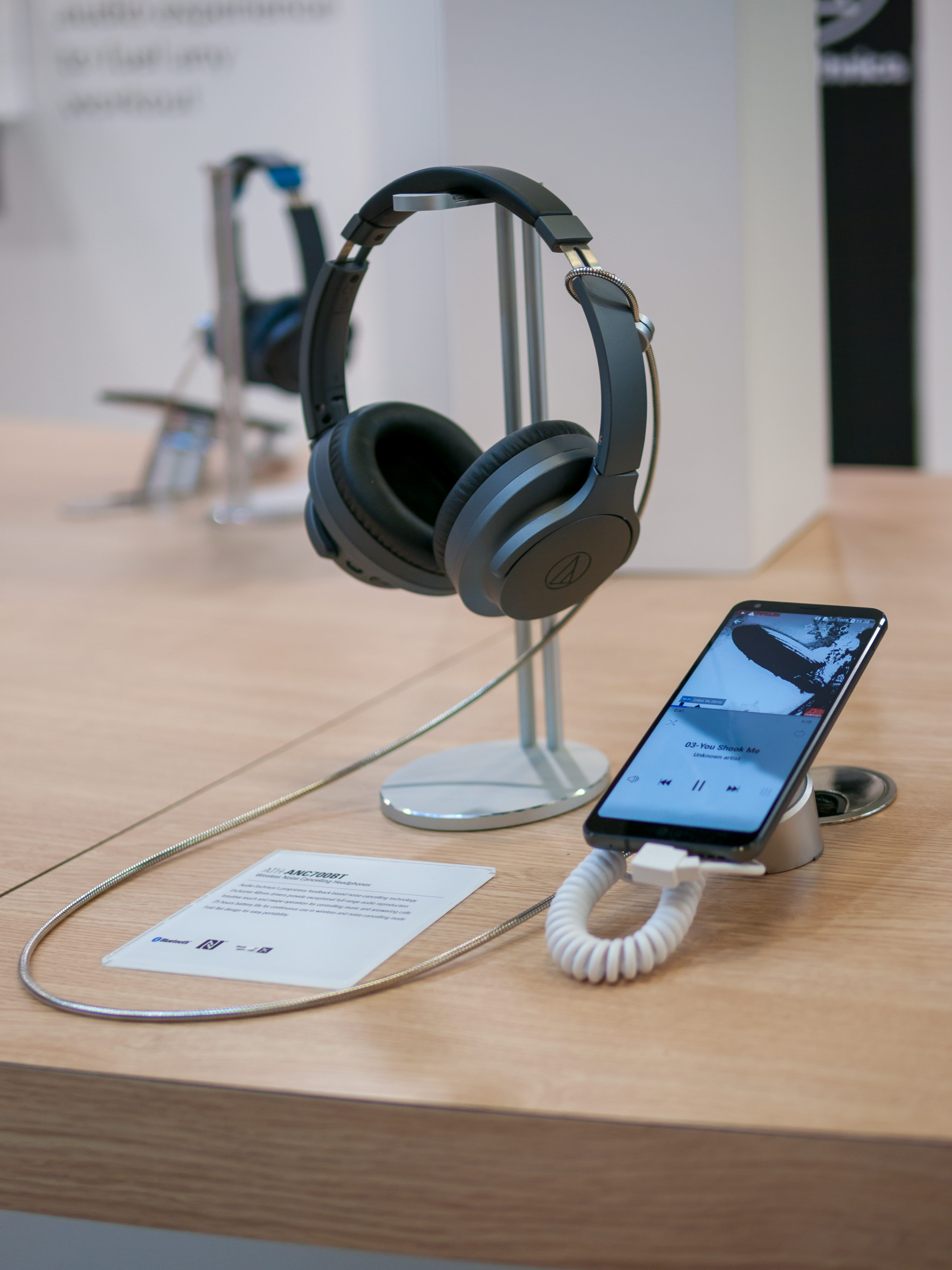 Audio-Technica, Internationale Funkausstellung 2018, Berlin